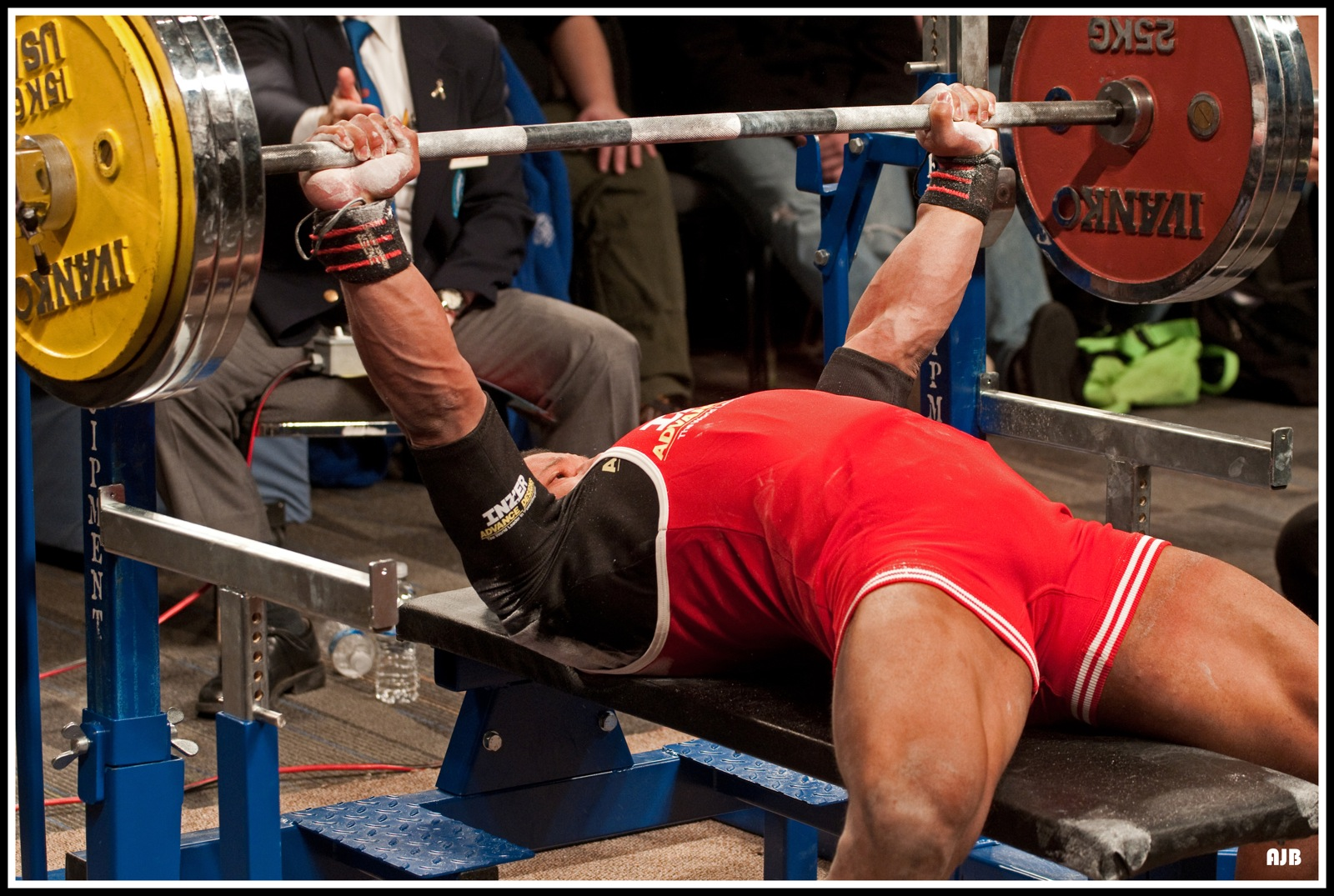 bench press